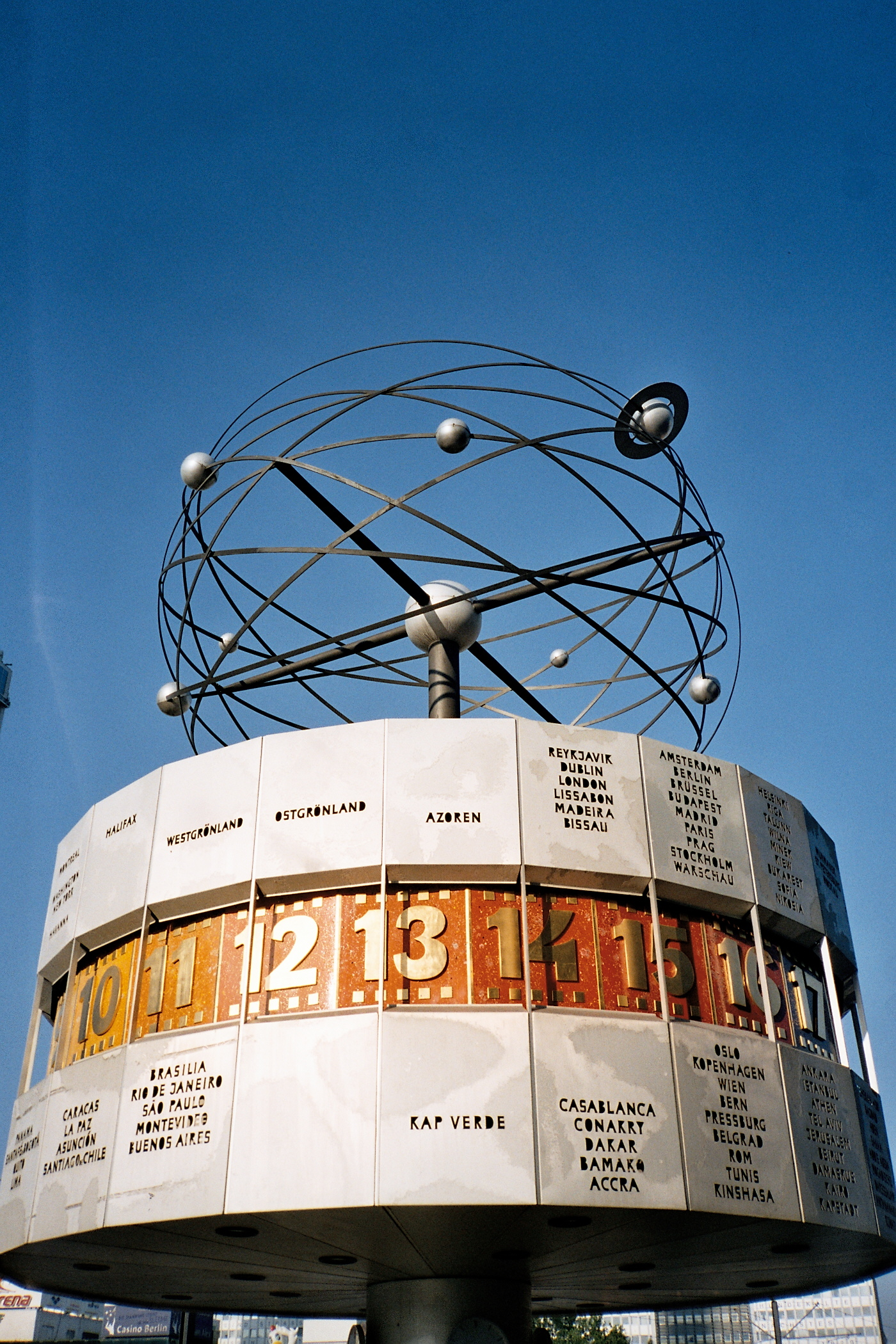 Description: Weltzeituhr at Alexanderplatz, in Berlin. Source: self-made. I release it into the public domain.